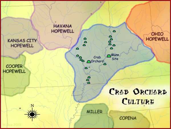 The Crab Orchard culture were Native Americans known as the Woodland period peoples that occupied western Kentucky, and southern Indiana from around 200 BC to 500 AD.